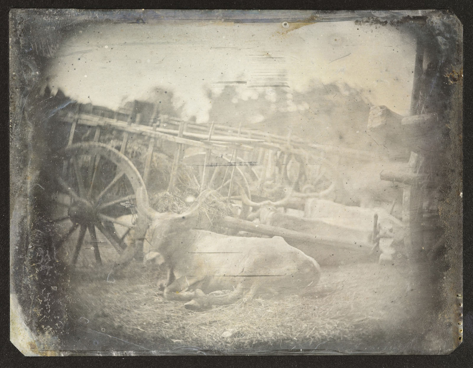 This daguerreotype is believed to have been taken while Girault de Prangey was visiting Rome between April and July in 1842 making it the earliest known photograph of a living animal.